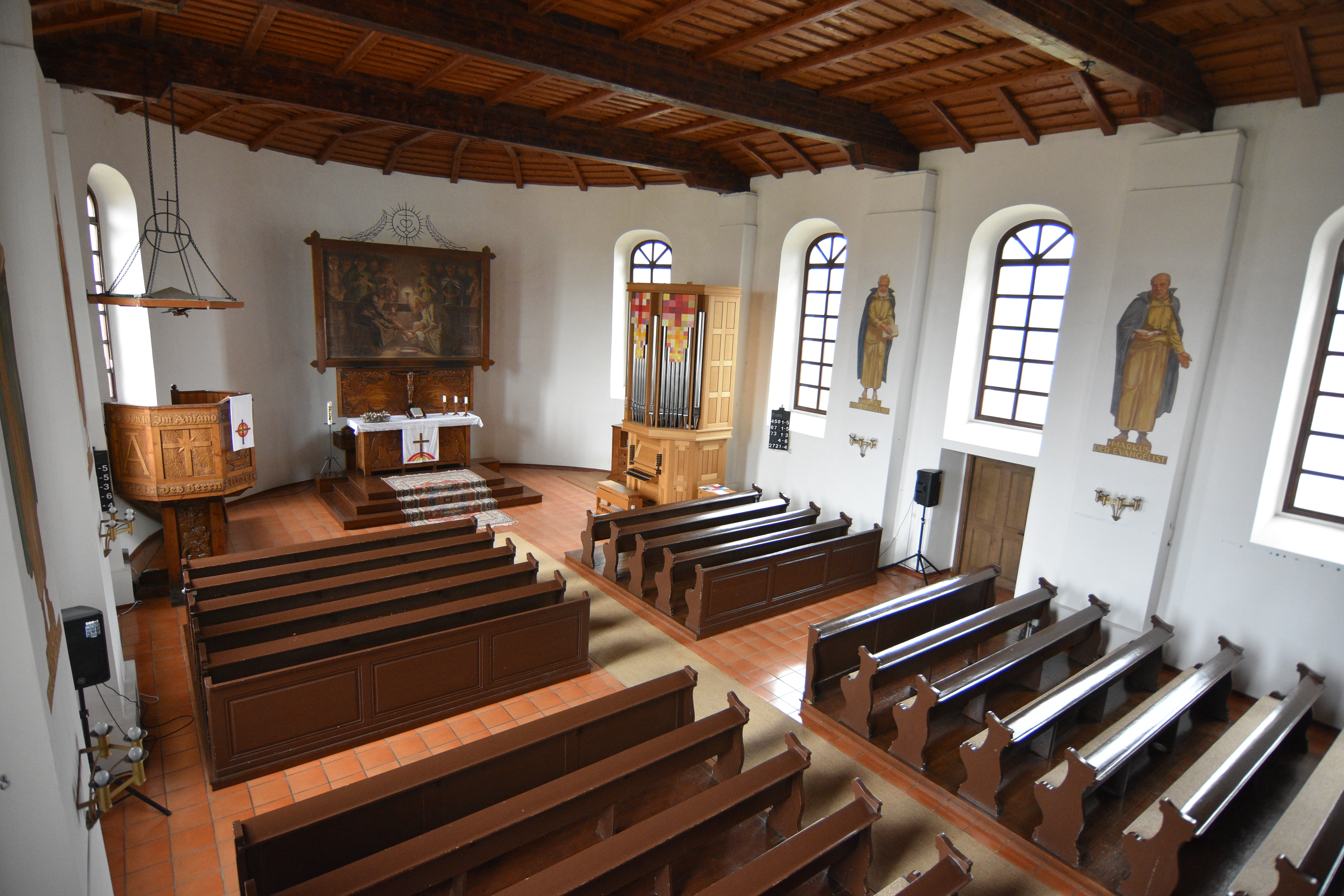 Martin-Luther-Church Eltendorf - Interior